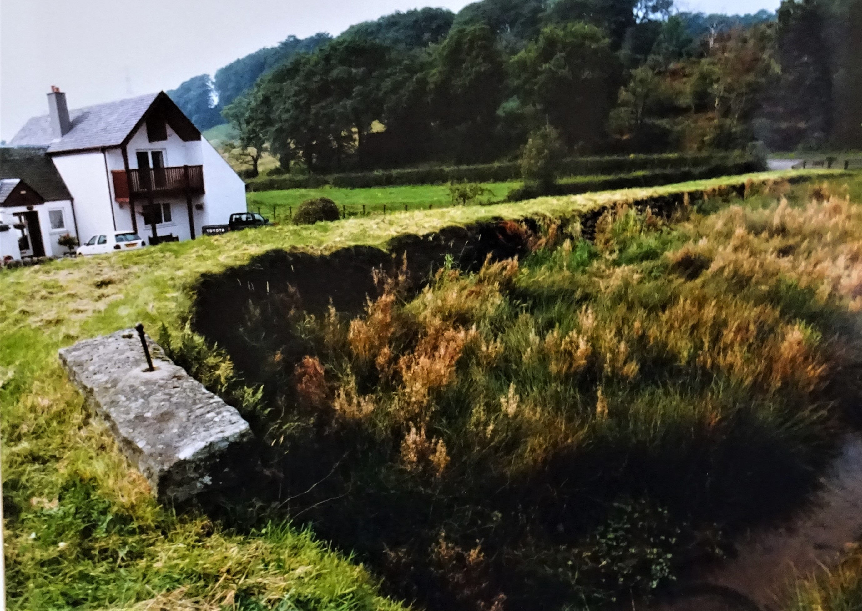 Coldstream Mill, Beith, North Ayrshire. The millpond and sluice. Empty at this time, now restored.